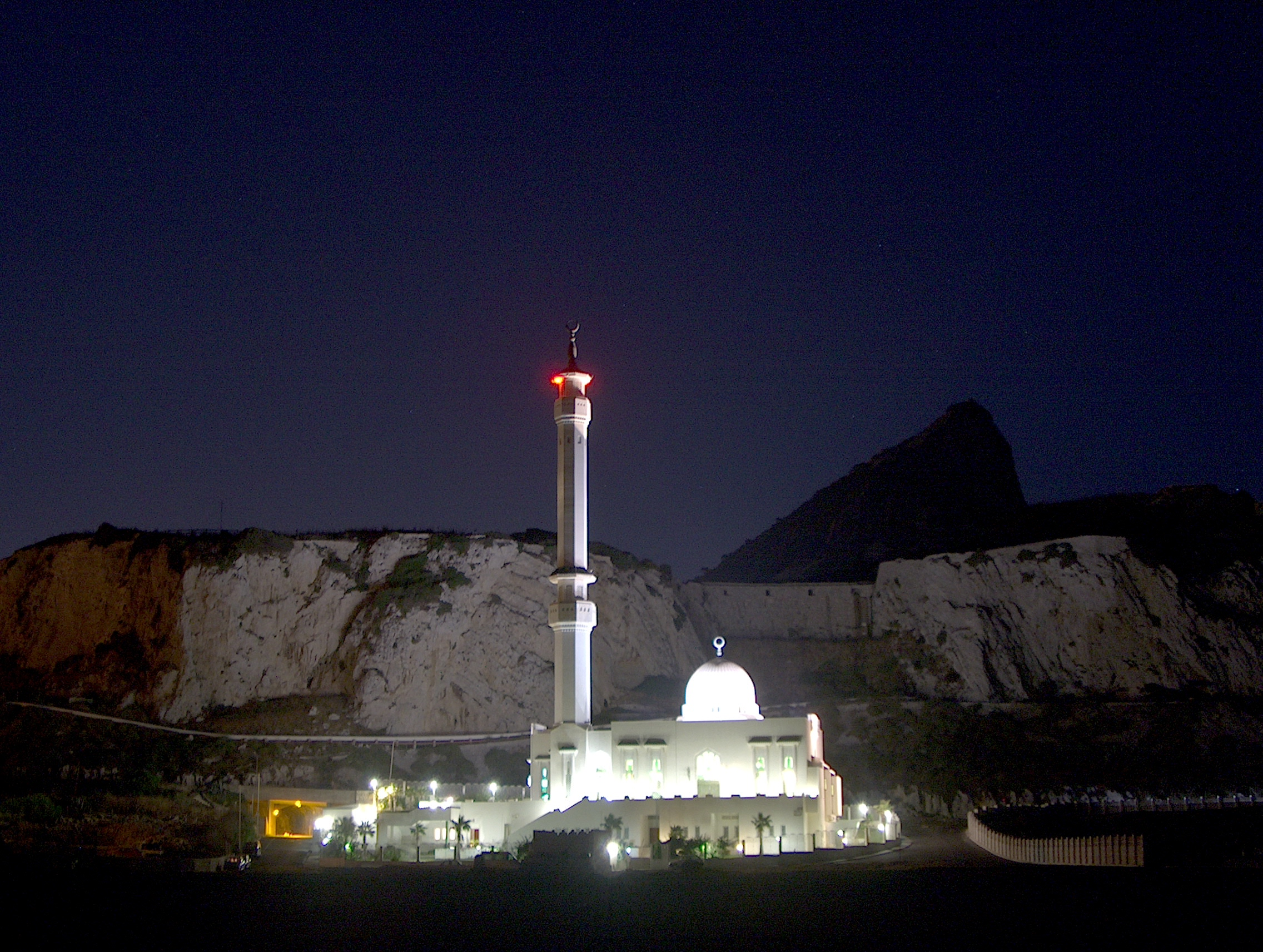 Ibrahim-al-Ibrahim Mosque at night